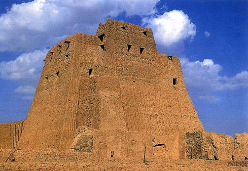 Sab Fort, Sistan and baluchestan, Iran.